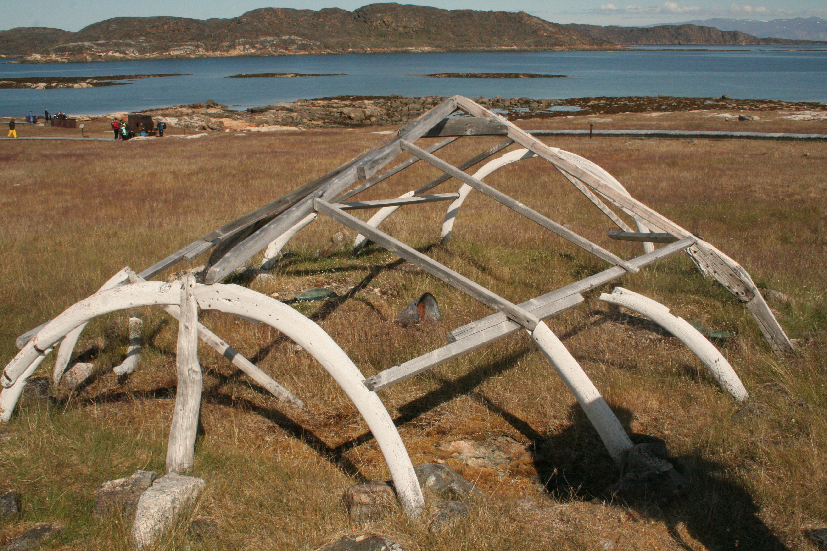 Frame of Inuit Dwelling.